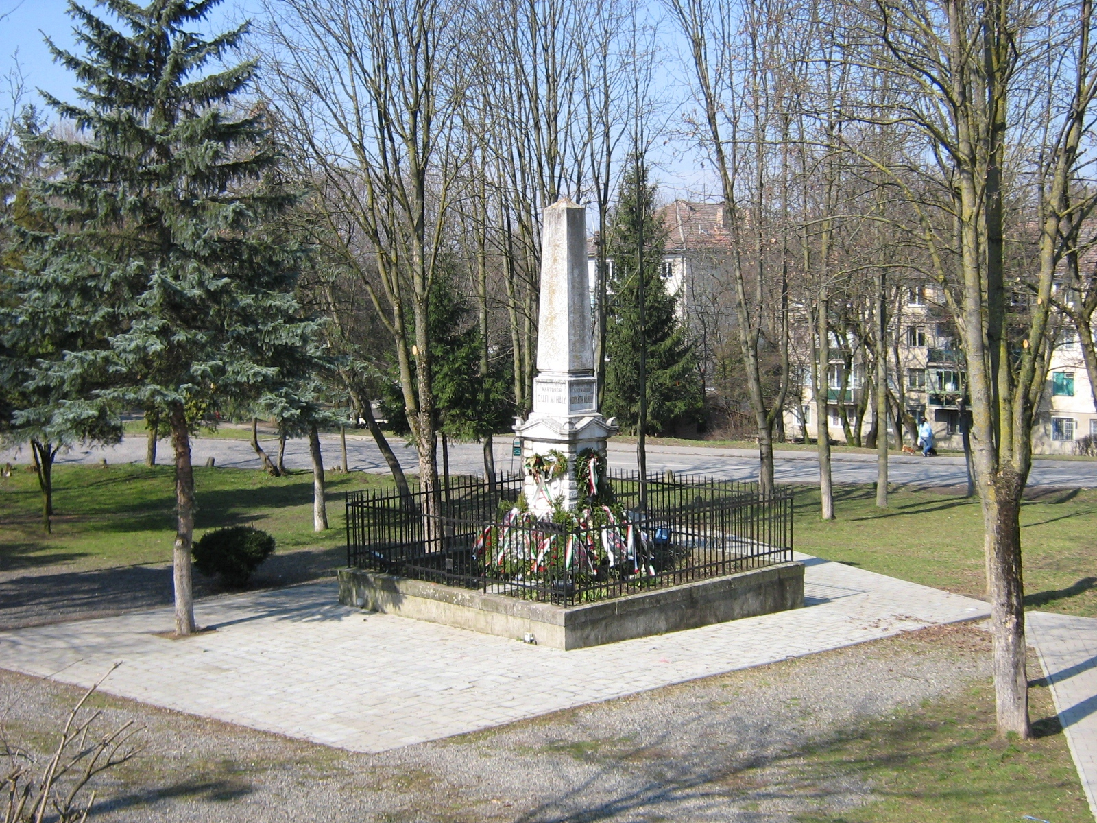 The Székely martyrs' monument in Marosvásárhely